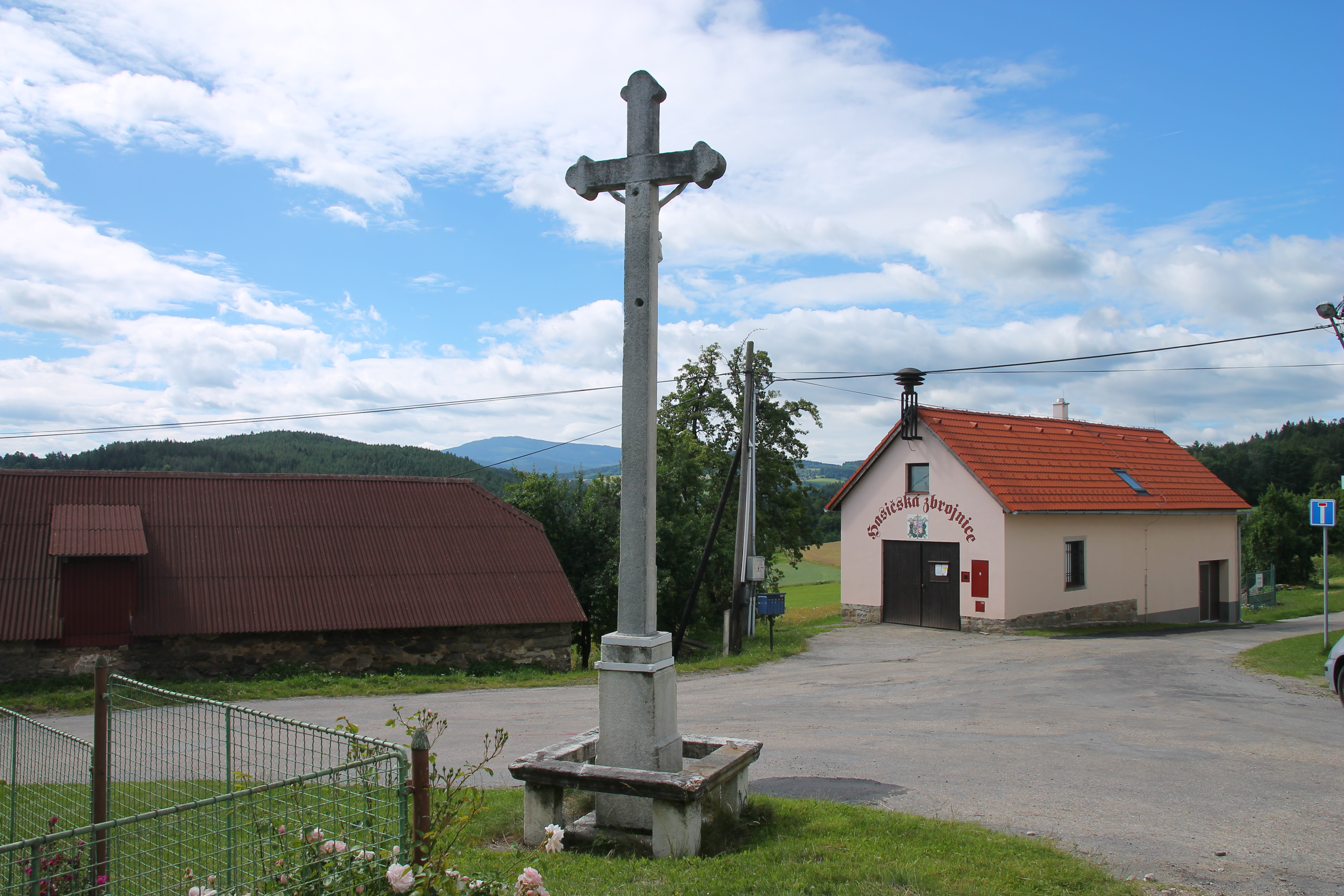 Výškovice, Vimperk